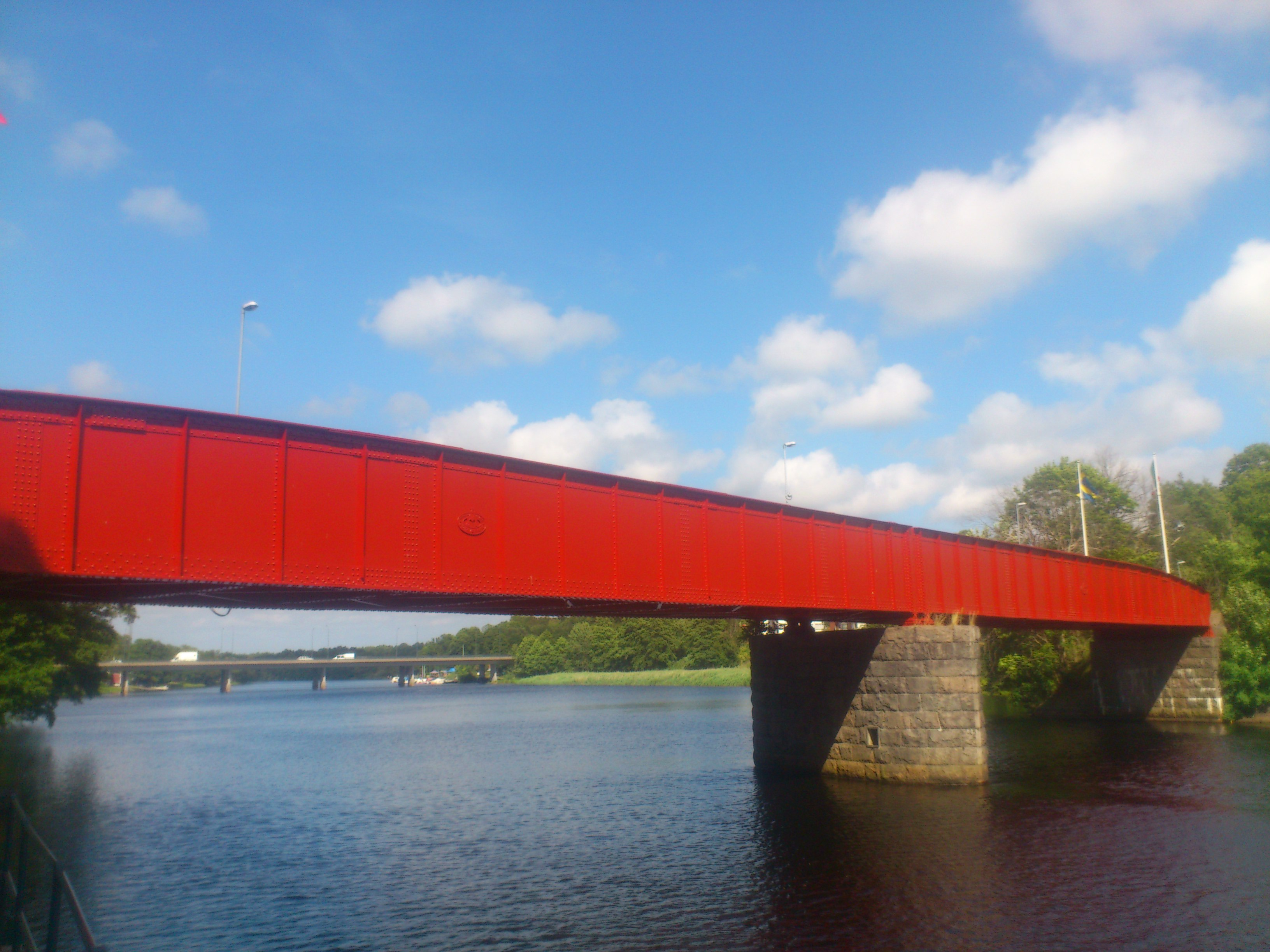 Old West Coast Line railway bridge over the Nissan River in Sweden